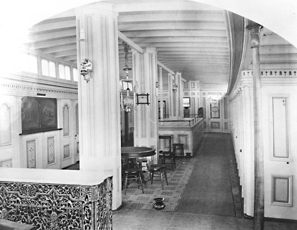 Interior of the steamboat Wide West, which operated on the Columbia river from 1877 to 18777.